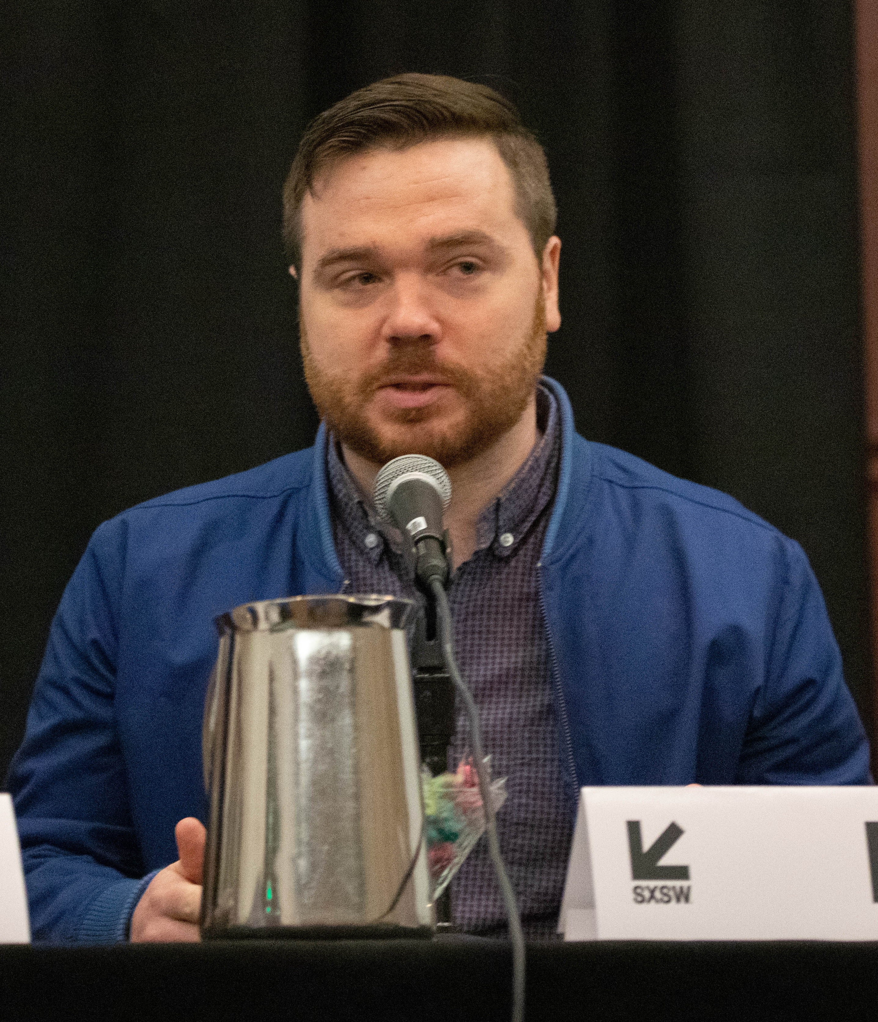 Cropped image of Kevin Roose at the South by Southwest 2019.